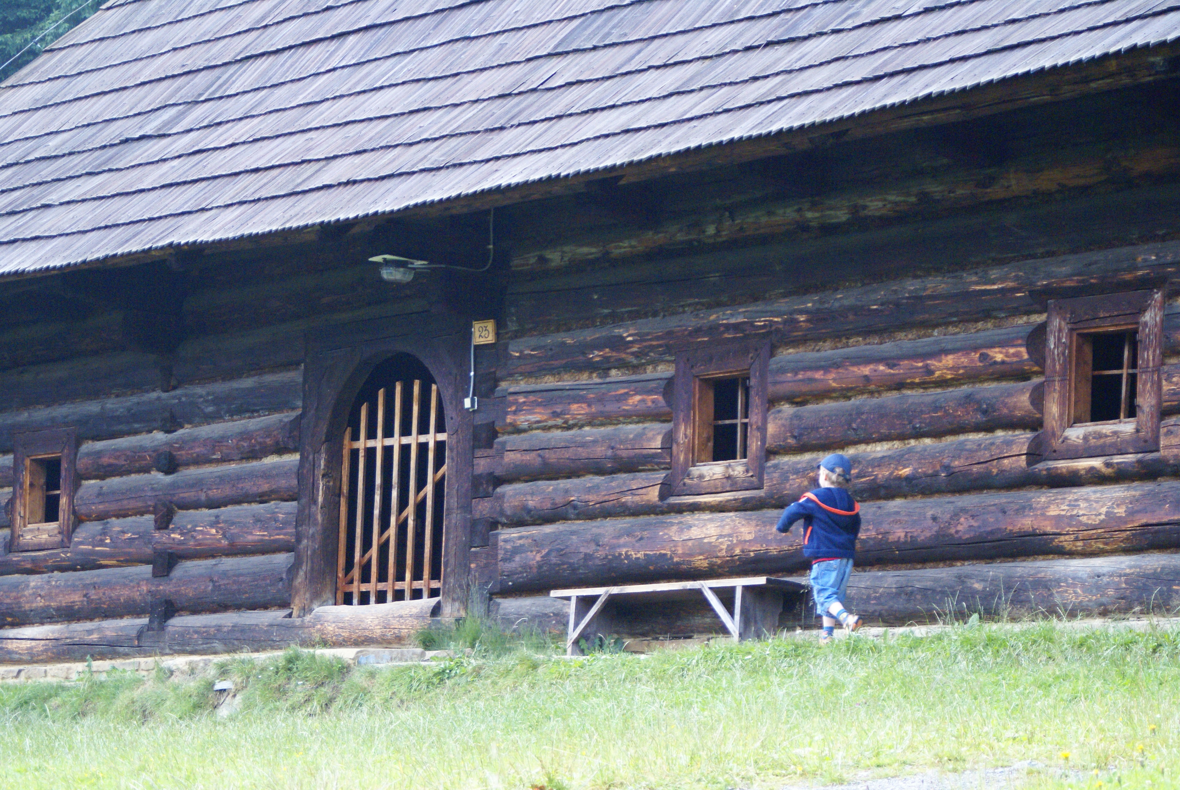 Open air museum of typical slovakian old Orava village, Zuberec, West Tatras, Slovak Republic